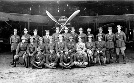 Palestine: Mejdel Jaffa Area, Ramleh Date made: November 1918 Summary: Group portrait of Officer Commanding and Officers of No. 1 Squadron Australian Flying Corps in front of a Bristol F2B fighter aircraft. Back row, left to right: Lieutenant (Lt) C. J. Vyner Lt L. S. Climie Lt H. Trevan MC Lt D. R. Dowling Lt H. A. Blake Captain (Capt) A. A. Lang, Australian Army Medical Corps Lt S. W. Barker MC Lt J. C. McMurray Lt J. McElligott Lt William Harold Lilly Lt Paul Joseph McGuinness DCM DFC Lt S. H. Harper Middle row: Lt R. S. Adair Lt C. J. Harman Lt F. C. Hawley Lt F. W. F. Lukis Major S. W. Addison OBE Capt G. C. Peters DFC Lt E. S. Headlam Lt P. A. McBain Lt Hector Johnston MSM Front row: Lt O. Vincent Lt A. W. Murphy DFC AFC Lt W. C. Thompson Lt A. V. Tonkin DFC